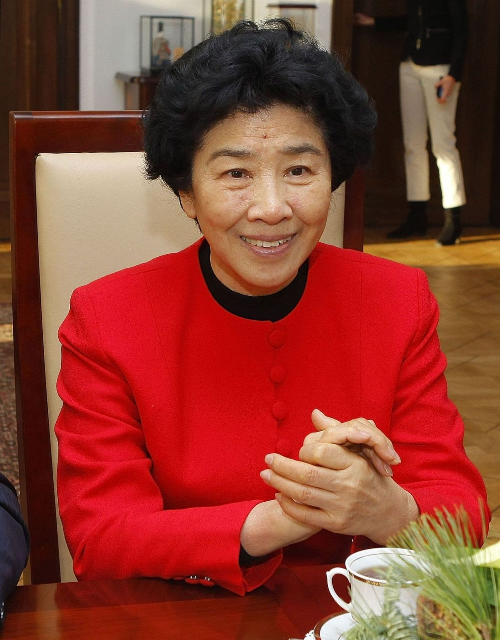 Wang Zhizhen, Vice Chairman of the Chinese People's Political Consultative Conference (CPPCC) in the Polish Senate